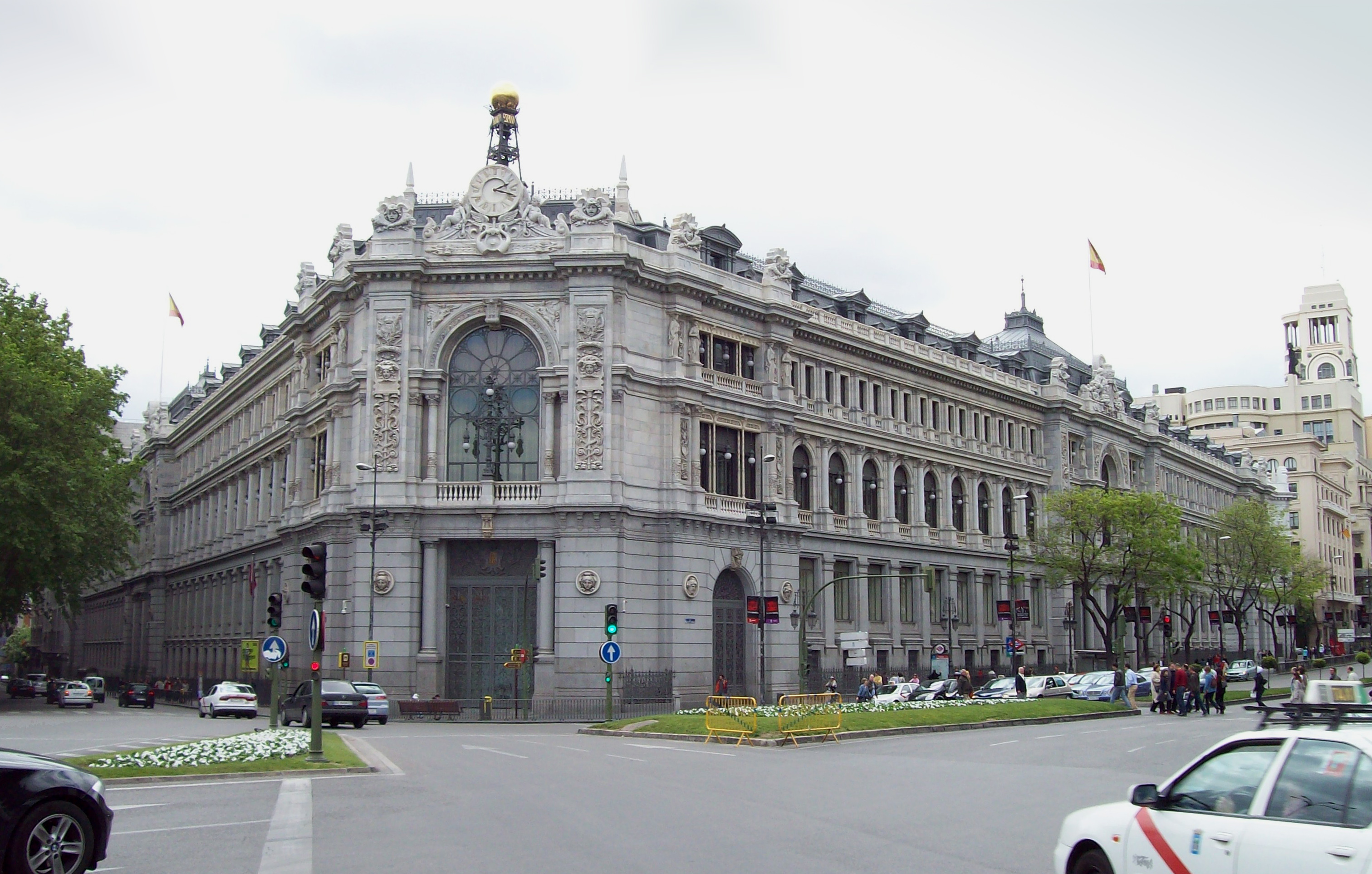 View of the Bank of Spain headquarters (Madrid) from Plaza de Cibeles (square).